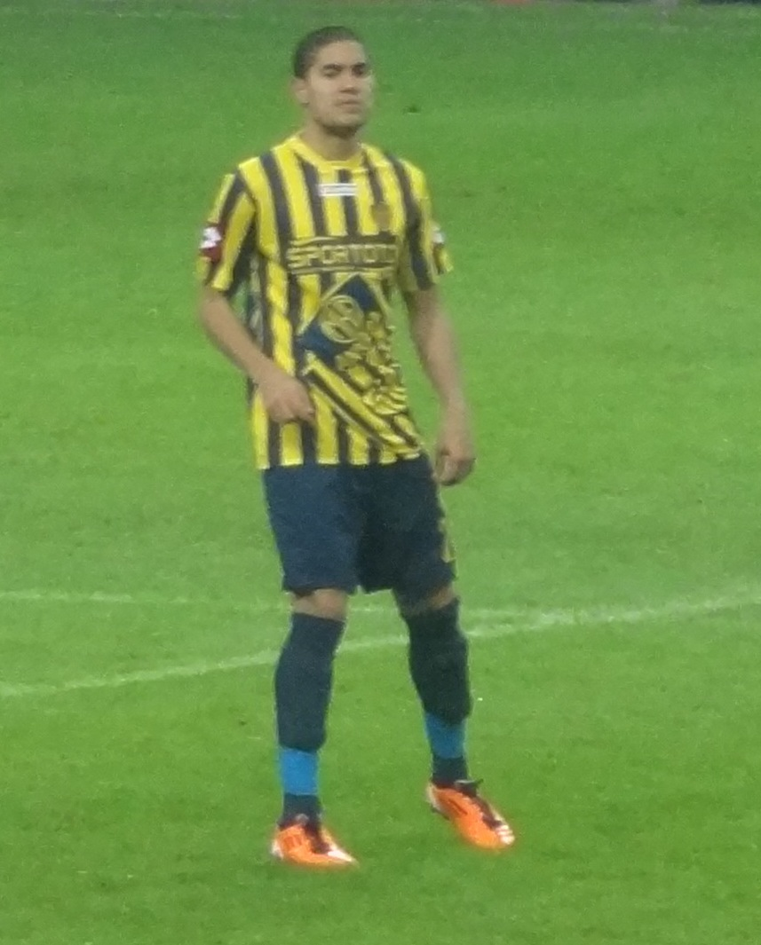 Aybars Vs GS